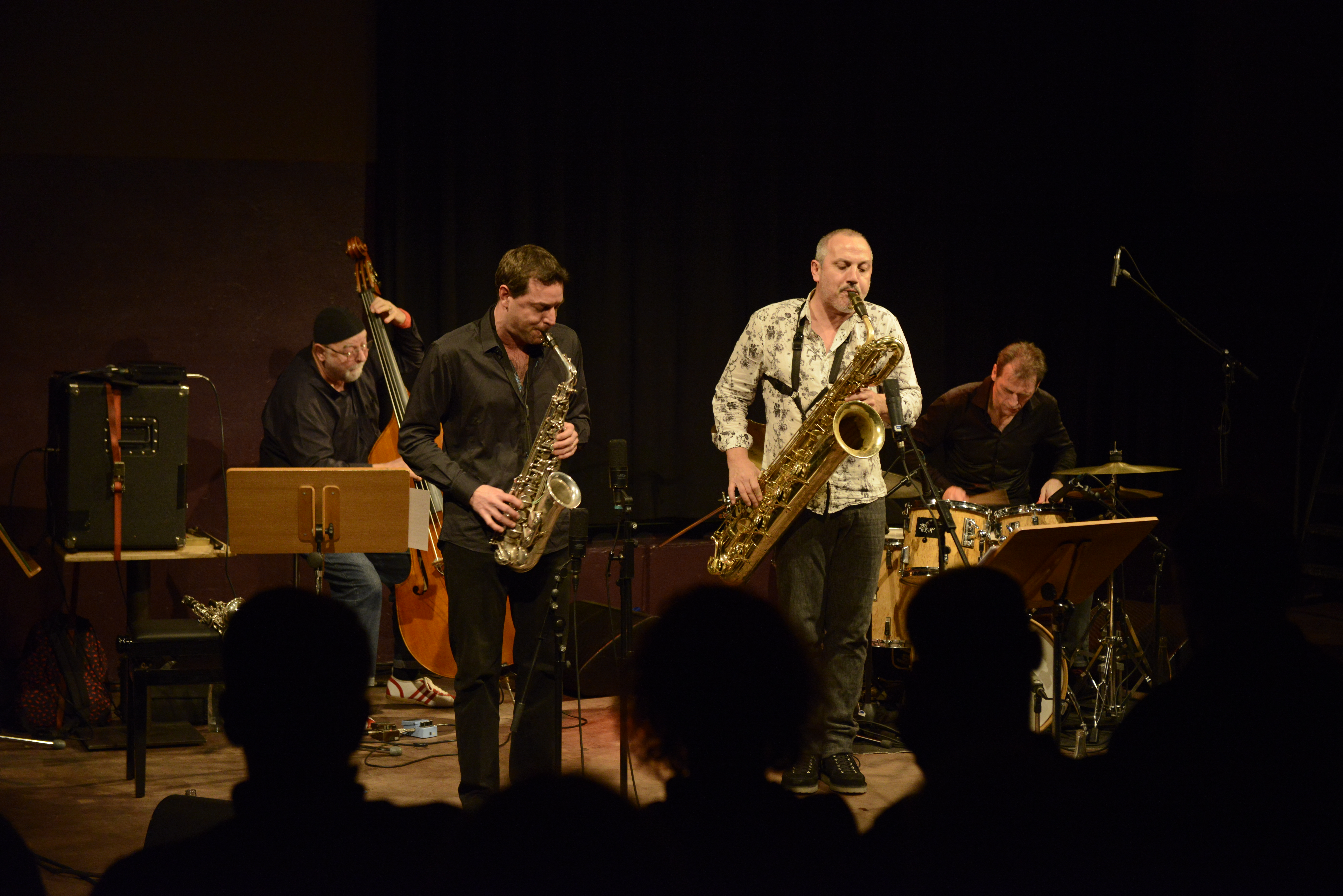 Henri Texier Hope Quartet at Stadtgarten Cologne